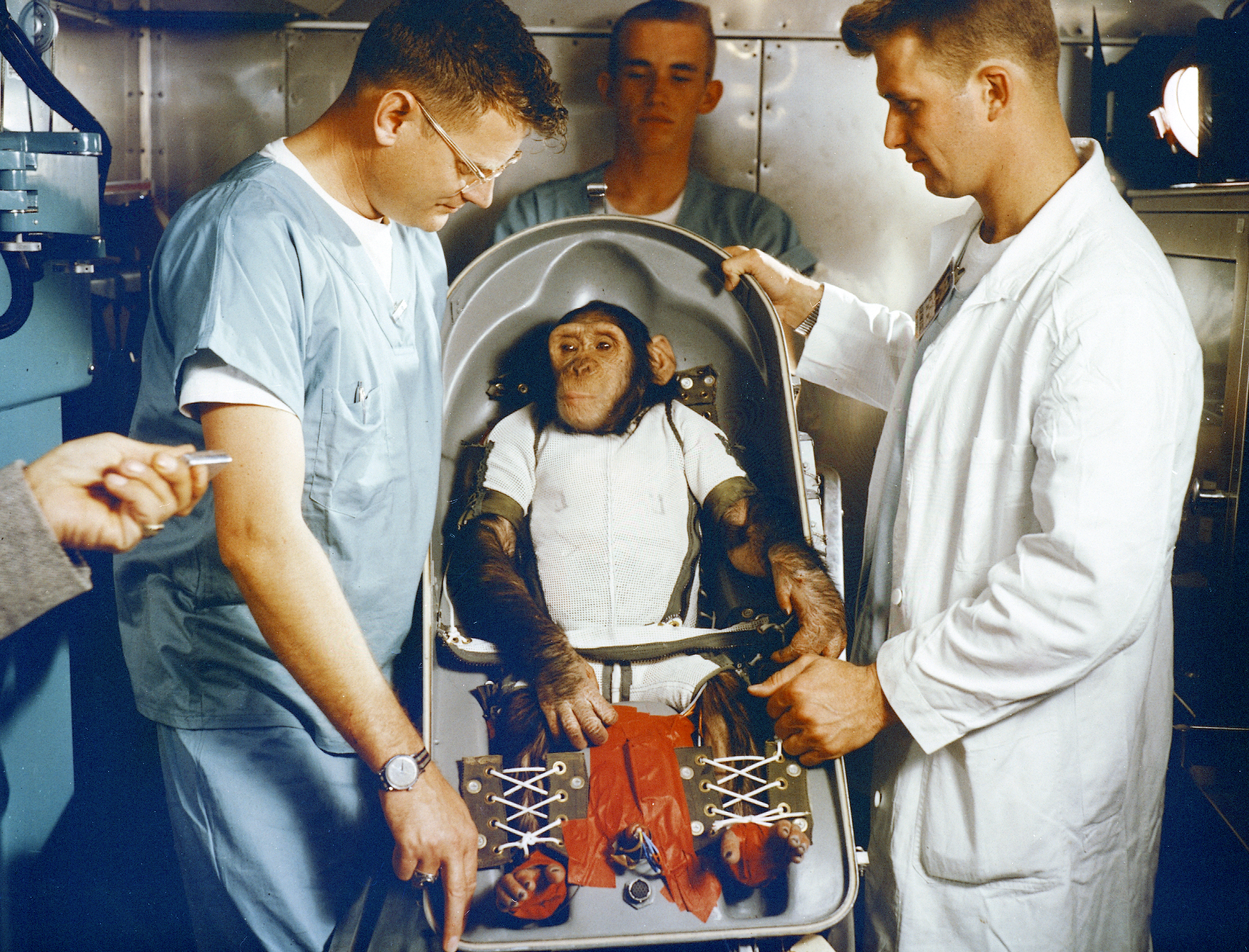 A three-year-old chimpanzee, named Ham, in the biopack couch for the MR-2 suborbital test flight. On January 31, 1961, a Mercury-Redstone launch from Cape Canaveral carried the chimpanzee "Ham" over 640 kilometers (400 mi) down range in an arching trajectory that reached a peak of 254 kilometers (158 mi) above the Earth. The mission was successful and Ham performed his lever-pulling task well in response to the flashing light. NASA used chimpanzees and other primates to test the Mercury capsule before launching the first American astronaut Alan Shepard in May 1961. The successful flight and recovery confirmed the soundness of the Mercury-Redstone systems.